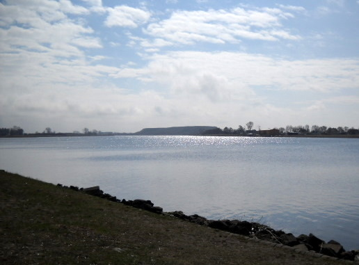 Widok na Martwą Wisłę z Sobieszewa.